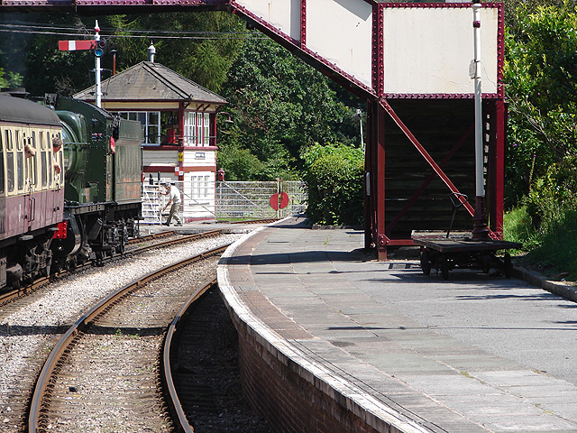 Glyndyfrdwy railway station Original description: Glyndyfrdwy Station Llangollen Railway The signalman is opening the level crossing gates prior to the train progressing onwards to Llangollen. Viewed from the rear of the train.